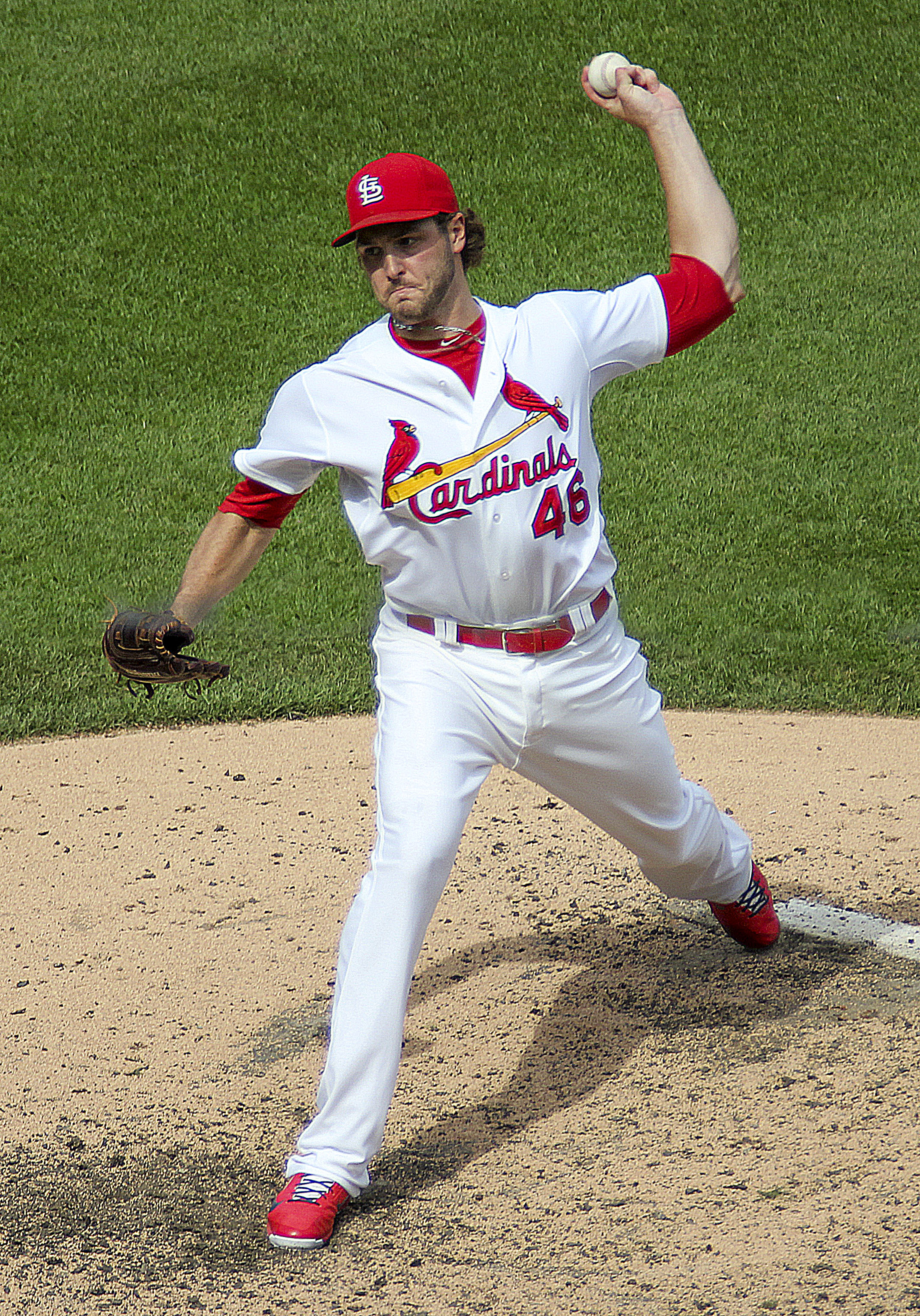 Kevin Siegrist of the cardinals.